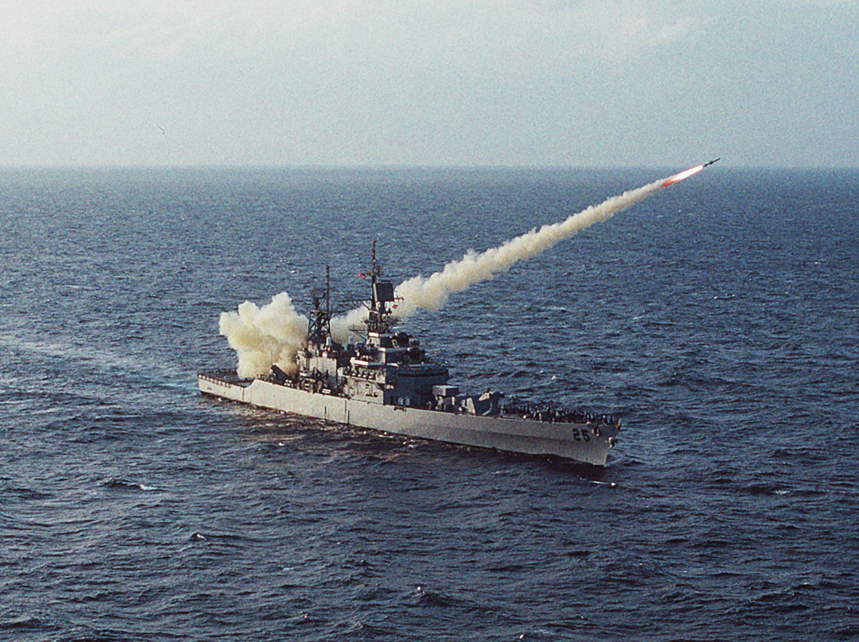 The U.S. Navy guided missile cruiser USS Bainbridge (CGN-25) firing a RGM-84 Harpoon missile during the "Red Reef III" exercise on 10 January 1992.